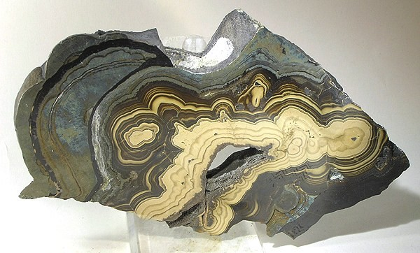 Marcasite, Galena, Sphalerite Locality: Olkusz, Olkusz District, Małopolskie, Poland (Locality at ) Size: 20.8 x 12.2 x 1.2 cm. A big, gorgeous and flashy specimen from Poland, a slice through essentially a boulder of alternating bands of three different minerals that were laid down in successive layers, similar to the way agate gets its bands, but with an exotic mix of minerals here rather than just quartz (as with agate). This specimen came out of the collection of Dave Stoudt, who was stationed in Poland for a decade and was able to buy from miners and dealers during his time there.